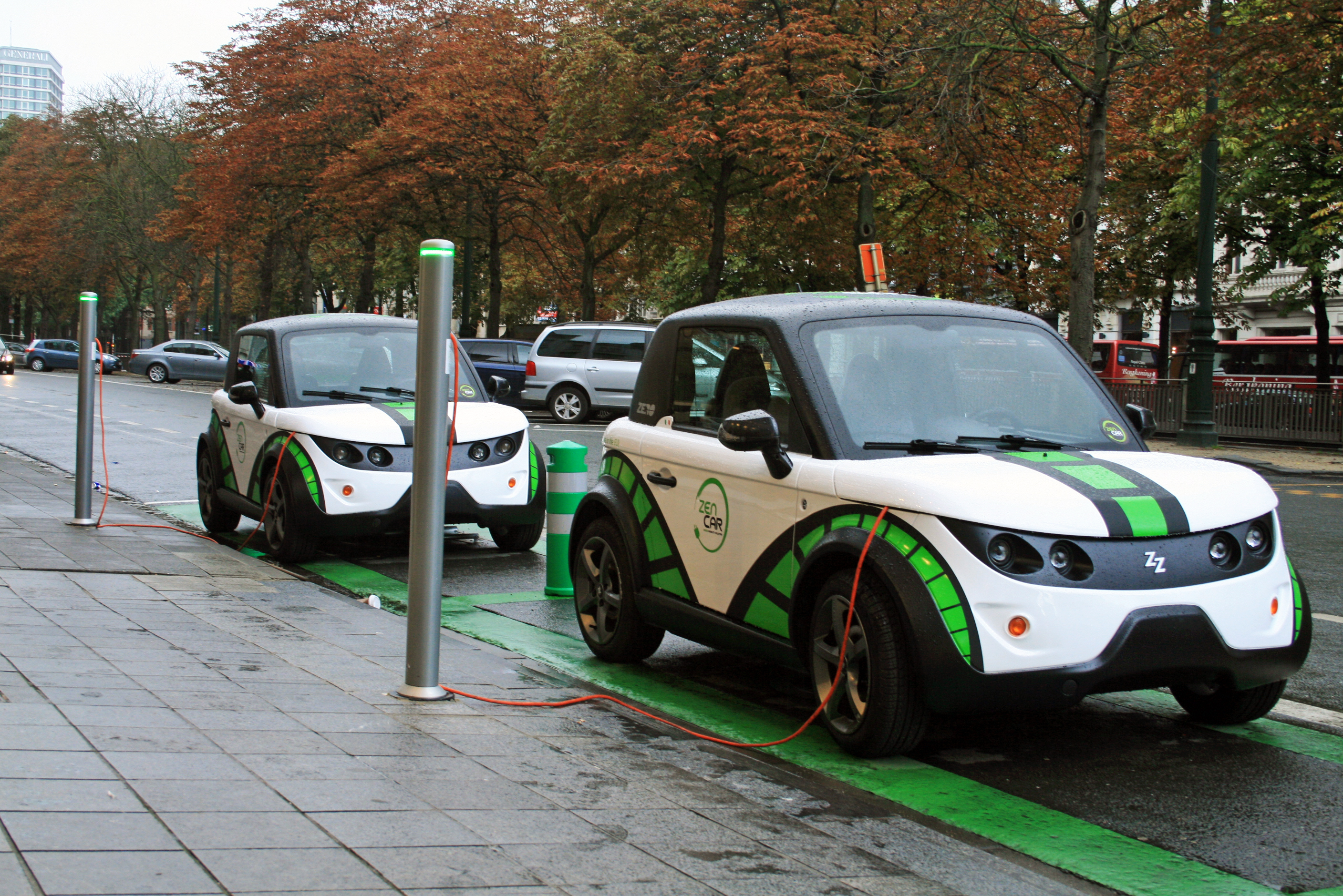 Two Tazzari Zero electric cars charging at Avenue Louise, Brussels, Belgium.